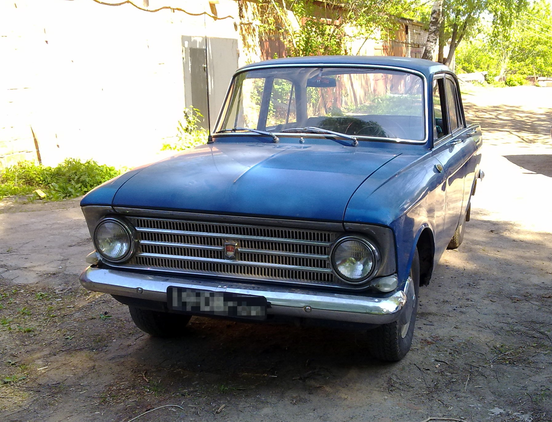 1966 Moskvitch-408, black (pre-1981) Soviet license plates, original "Electric" (dark blue) paint.